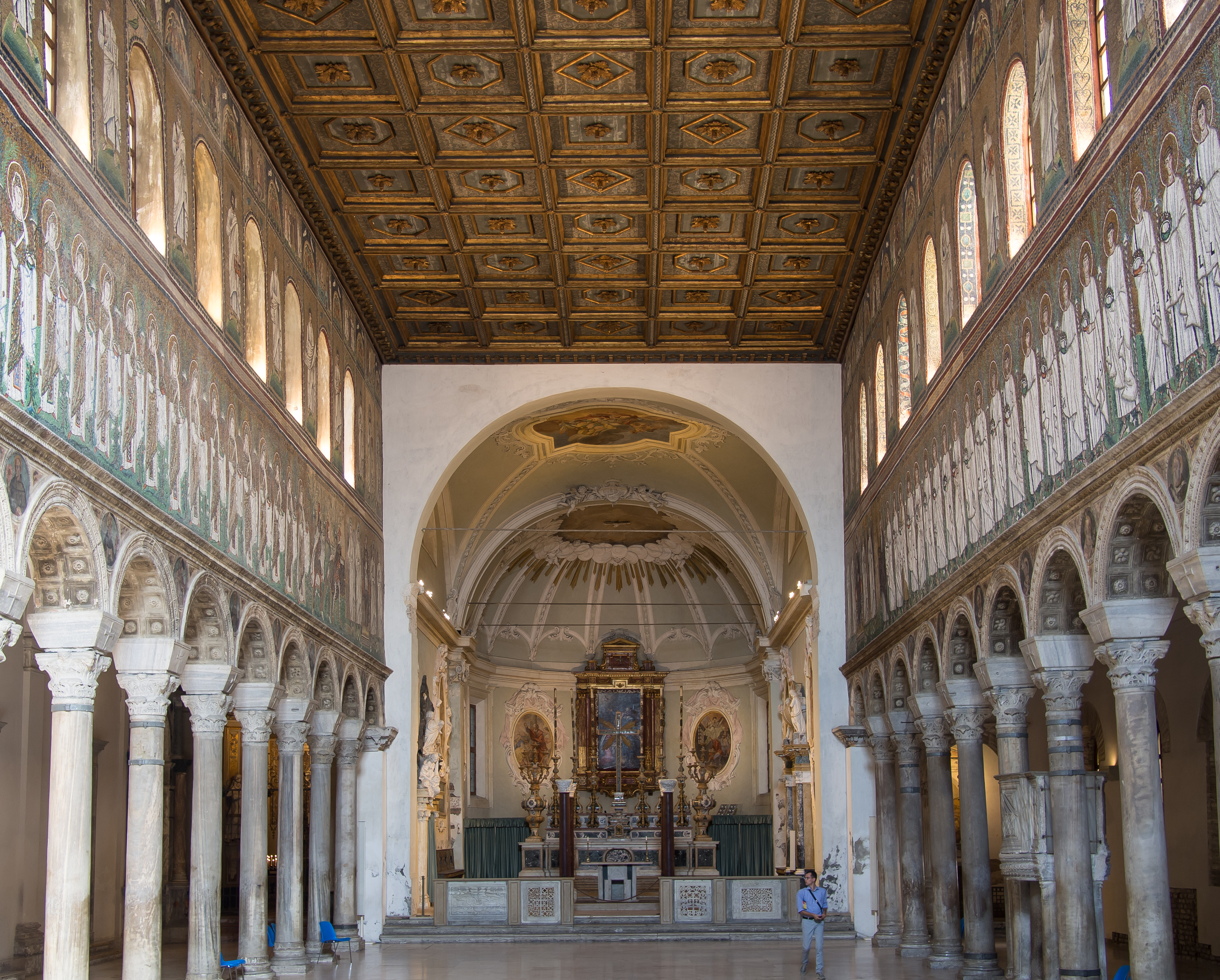 Ravenna - Basilica of Sant'Apollinare - inside